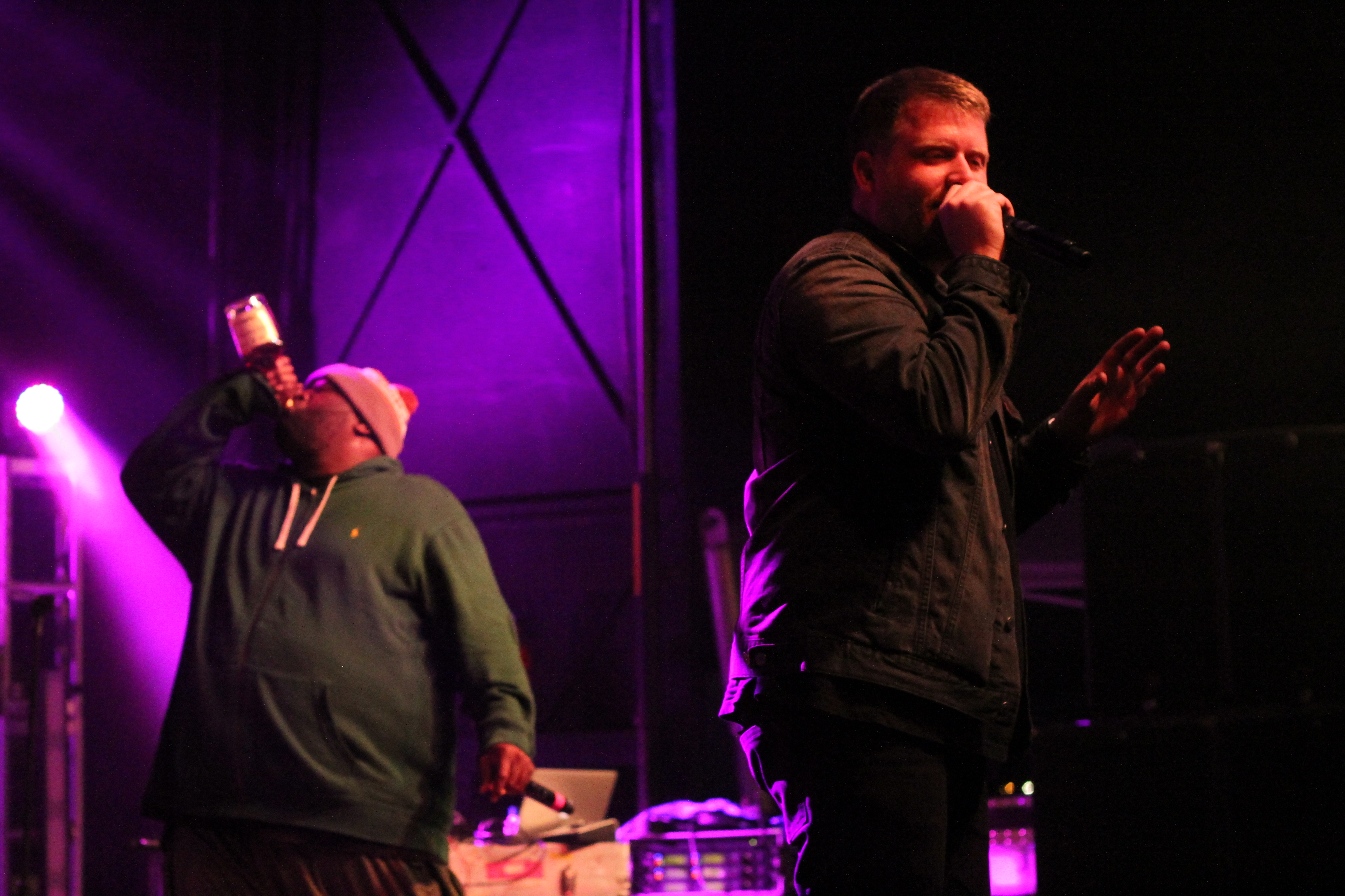 Credit Tyler Garcia, published by Treefort Music Festival